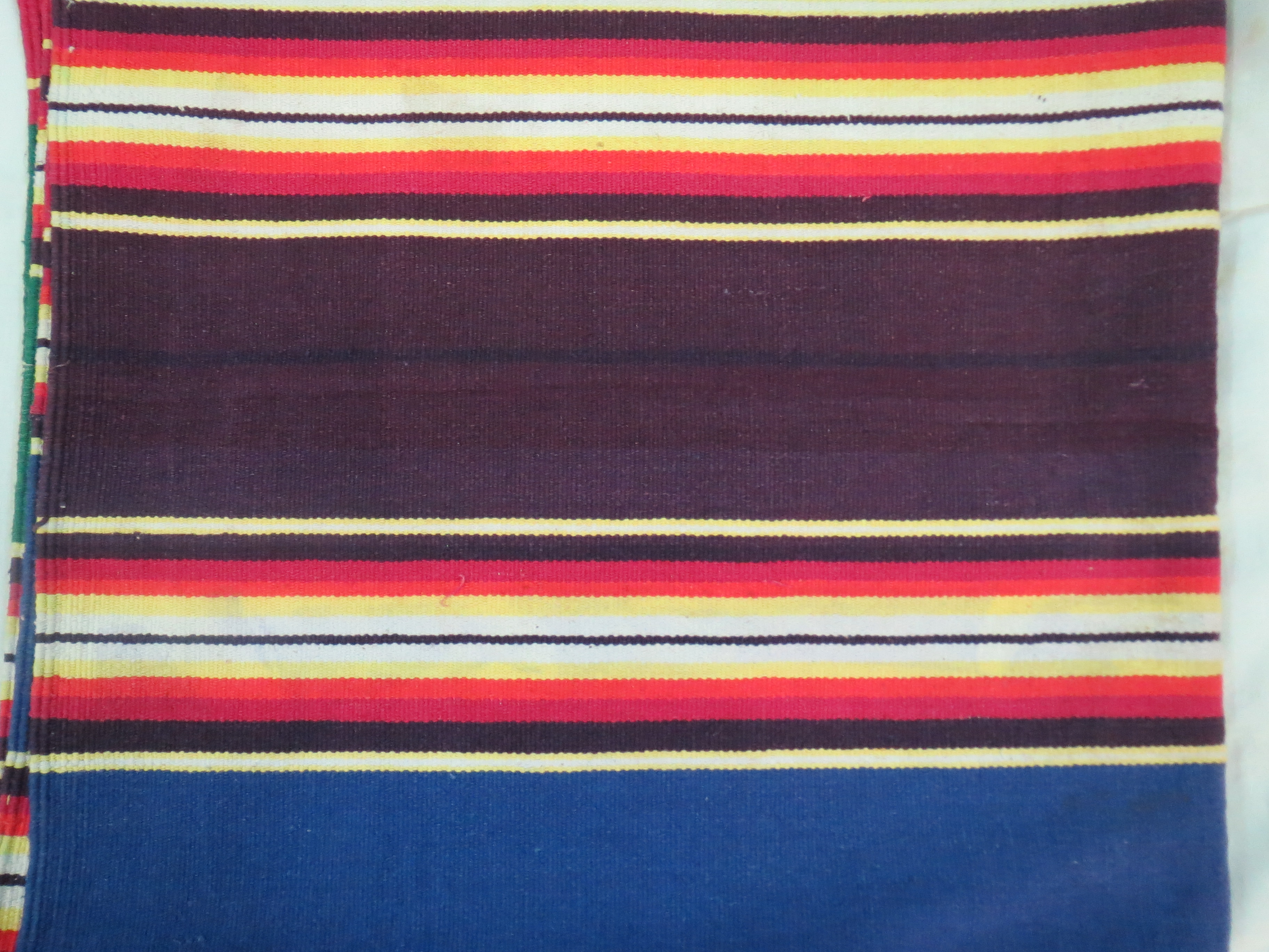 Jamakalam -one type of bed spread made and used in Tamil nadu.